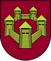 Coat of arms of Tērvete municipalityLatviešu: Tērvetes novada ģerbonis